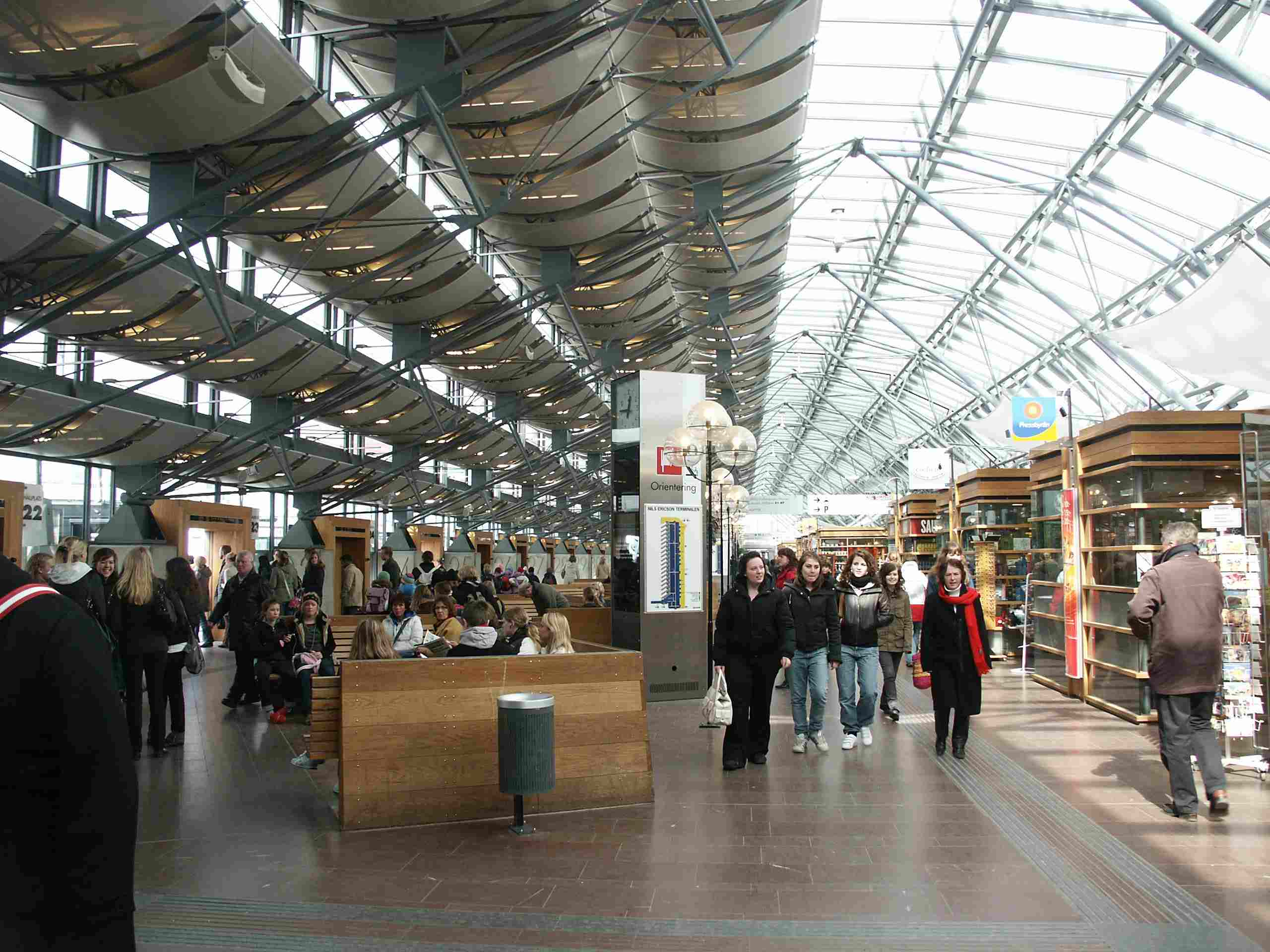 Photographer: Erik of Gothenburg, EVL. The Nils Ericson Terminal, Gothenburg.